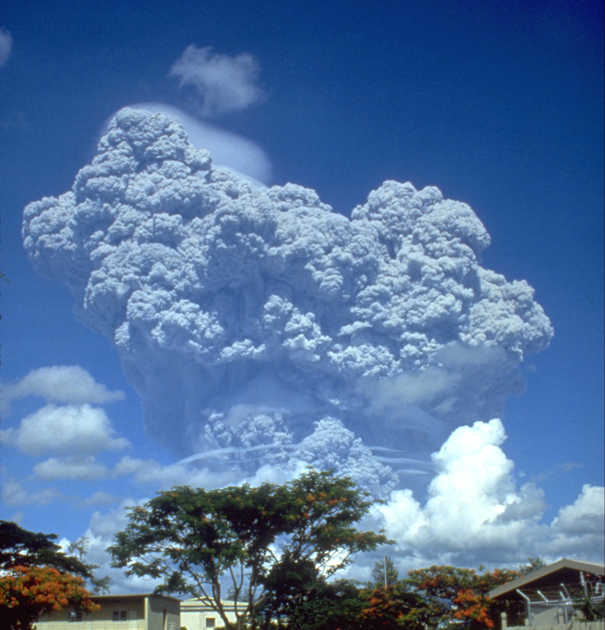 The June 12, 1991 eruption column from Mount Pinatubo taken from Clark Air Base.